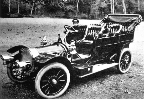 Tsarevich Alexei Nikolaievich of Russia, in 1909, sitting behind the wheel of a French made Delaunay-Belleville touring car. Delaunay-Belleville was the Tsar's favorite car.